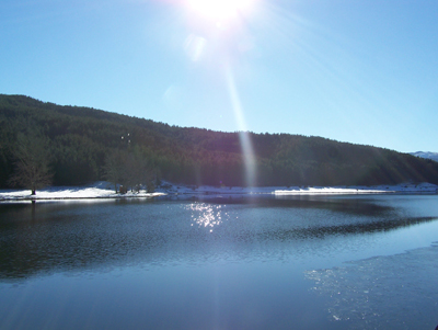 Lakes of Ariamacina - Calabria - january 2007